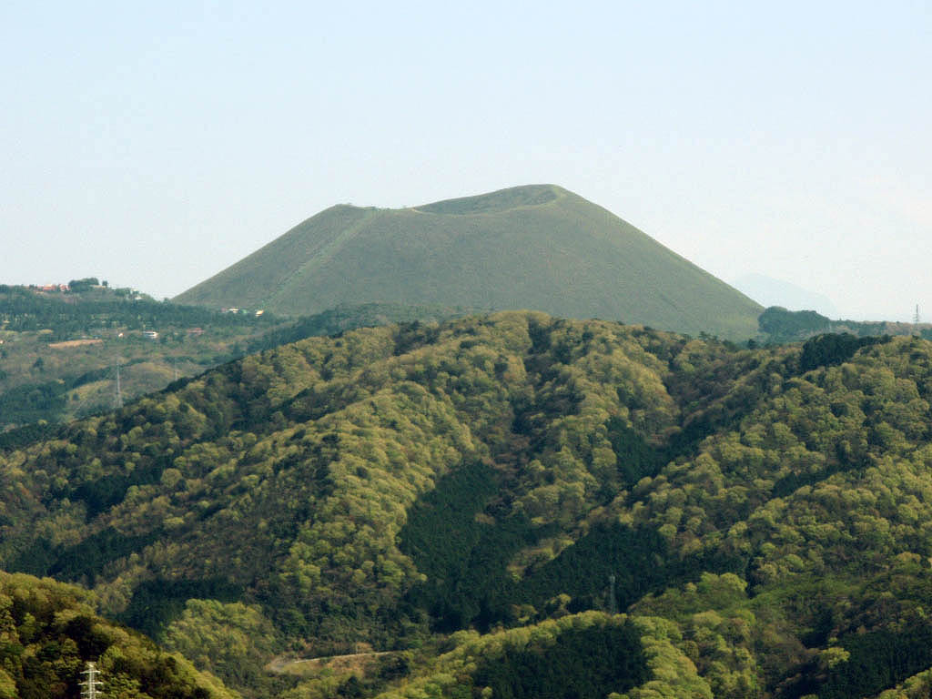 Mount Omuro (Omuro-yama) as seen from the northwest in Ito, Shizuoka Prefecture, Japan.